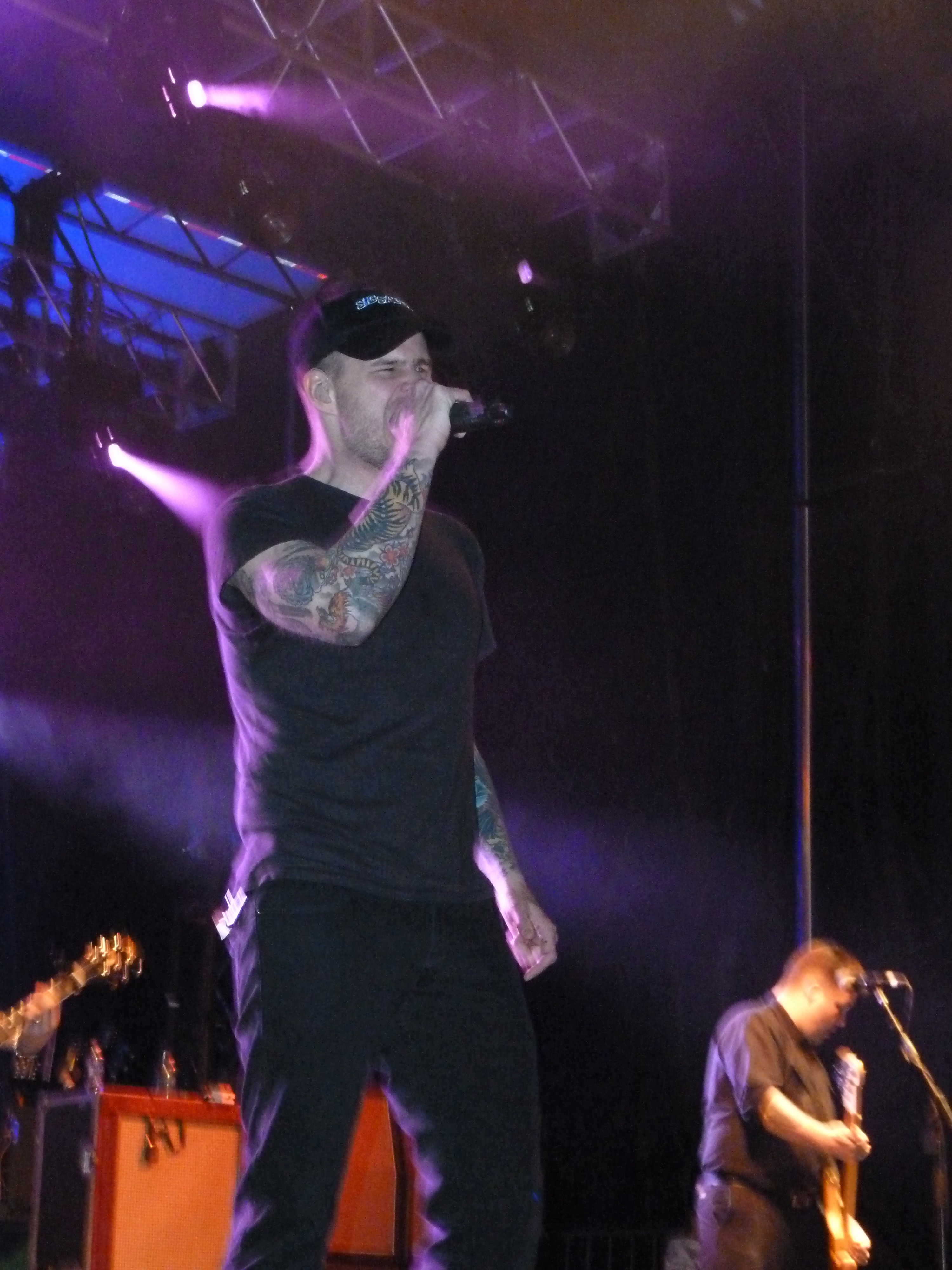 Al Barr performing with Dropkick Murphys at The National Shamrock Fest in Washington, D.C.